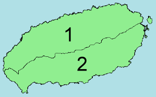 area map of Jeju Special Self-governing Province subdivision map